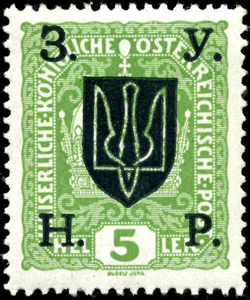 Western Ukraine 5h overprint stamp of 1919.